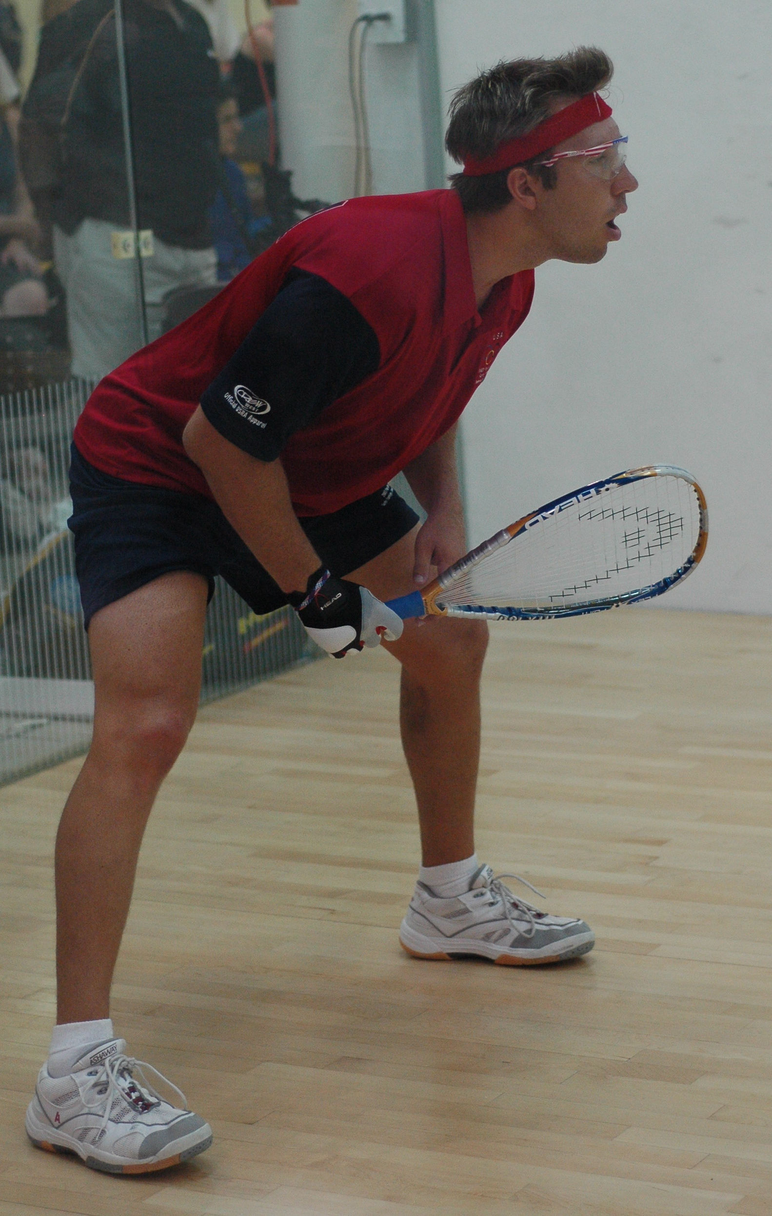 Jack Huczek at 2006 IRF World Racquetball Championships in Santo Domingo, Dominican Republic.